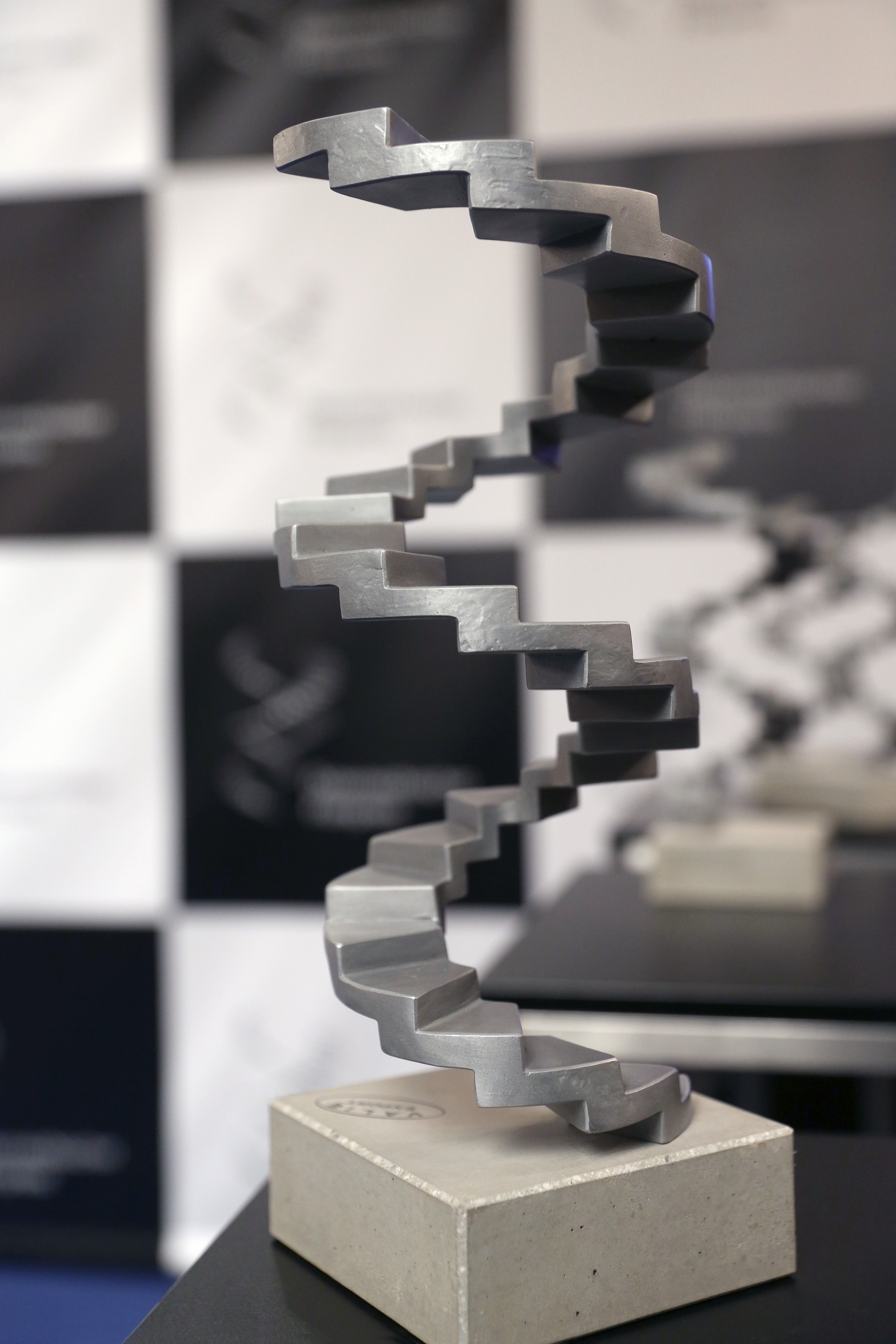 Austrian Film Awards 2015 at Rathaus, Vienna,Austria.